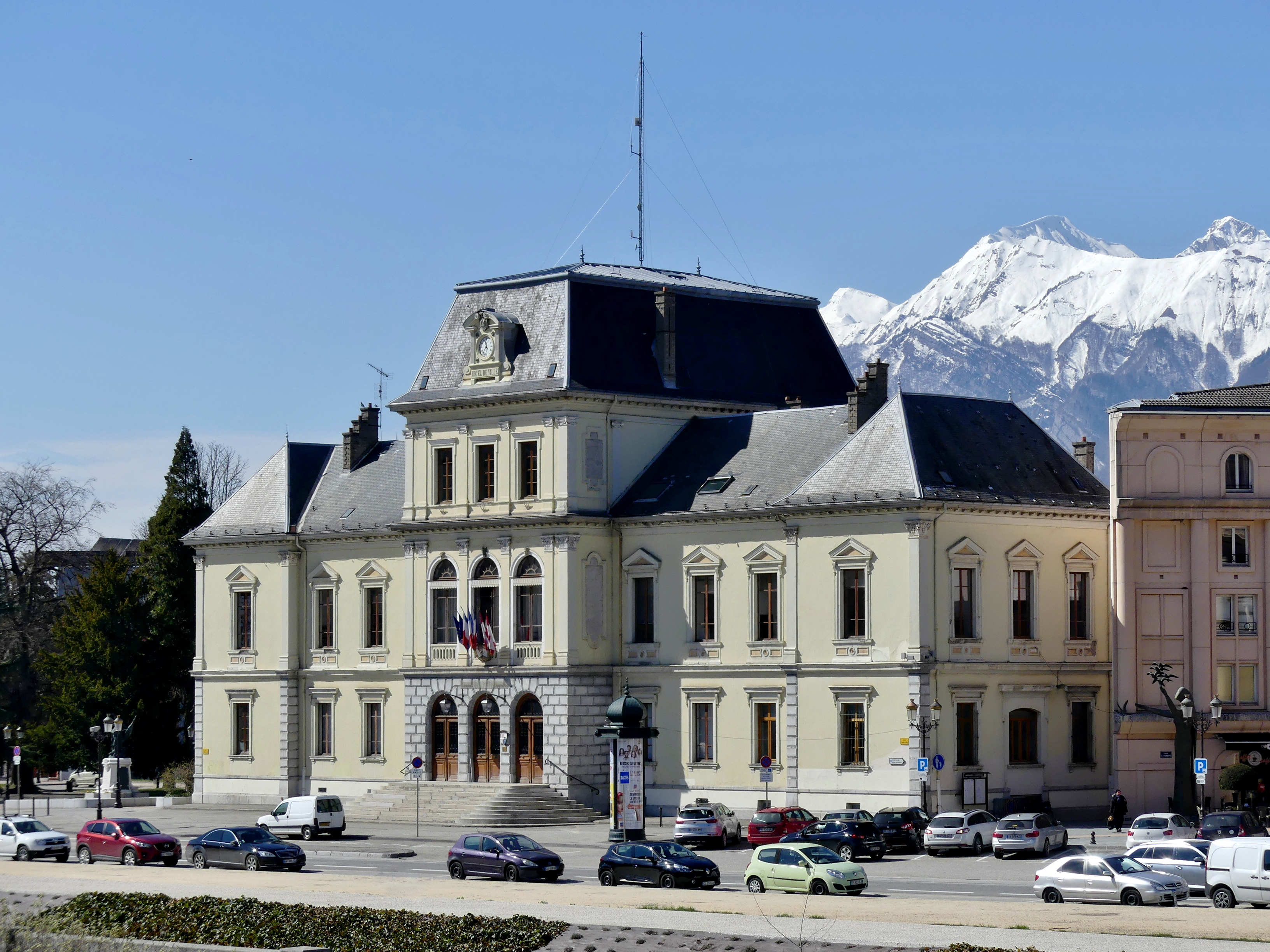 Sight, from the pont des Adoubes bridge, of Albertville town hall, in Savoie, France.